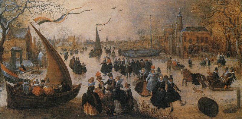 This image is available from the Netherlands Institute for Art Historyunder digital ID 66645. This tag does not indicate the copyright status of the attached work. A normal copyright tag is still required. See Commons:Licensing.